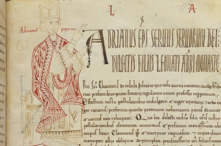 Pope Adrian IV, servus servorum dei, as depicted on a Benedictine chater, c.1150-1200 AD.